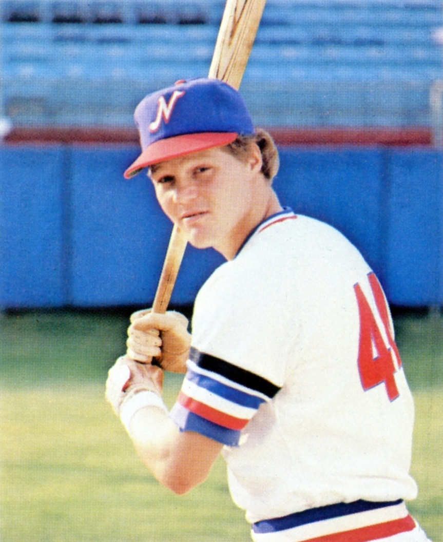 Second baseman Pat Tabler of the 1980 Nashville Sounds Minor League Baseball team of the Southern League